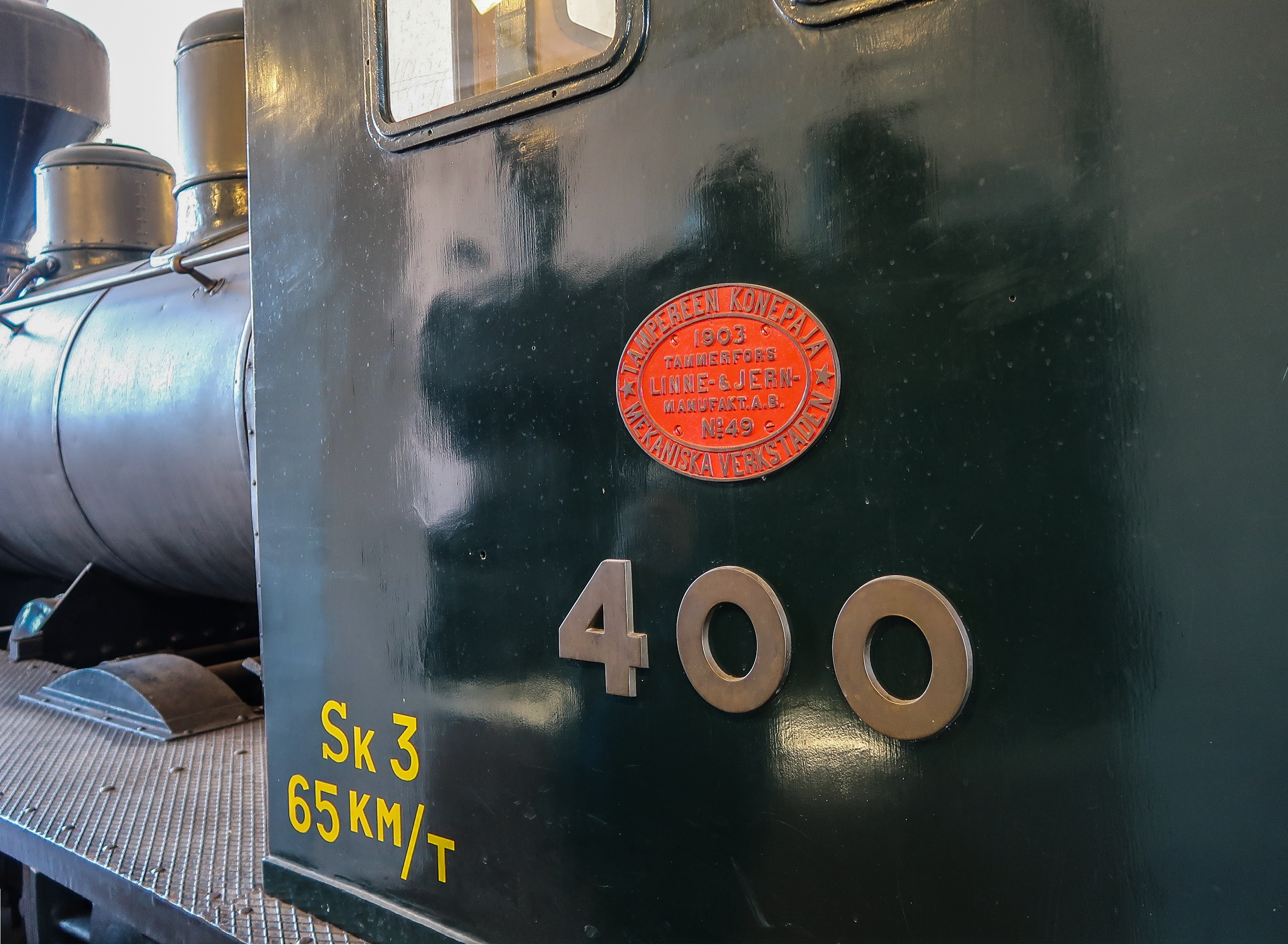 Side of Finnish VR Class Sk3 steam locomotive No 400 (max velocity 65 km/h), with reflection of another steam locomotive. These historical locomotives are exposed in Finnish Railway Museum in Hyvinkää.